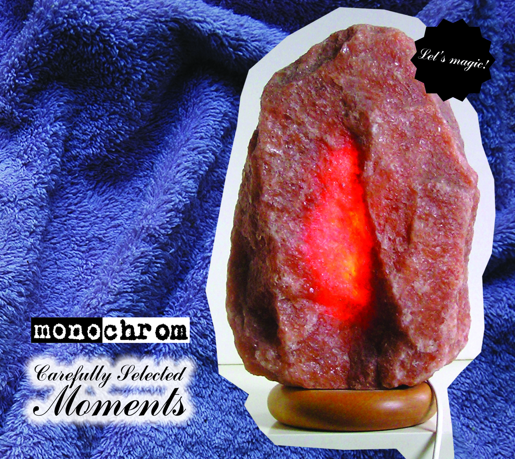 monochrom - "Carefully Selected Moments" (album cover, 2008)